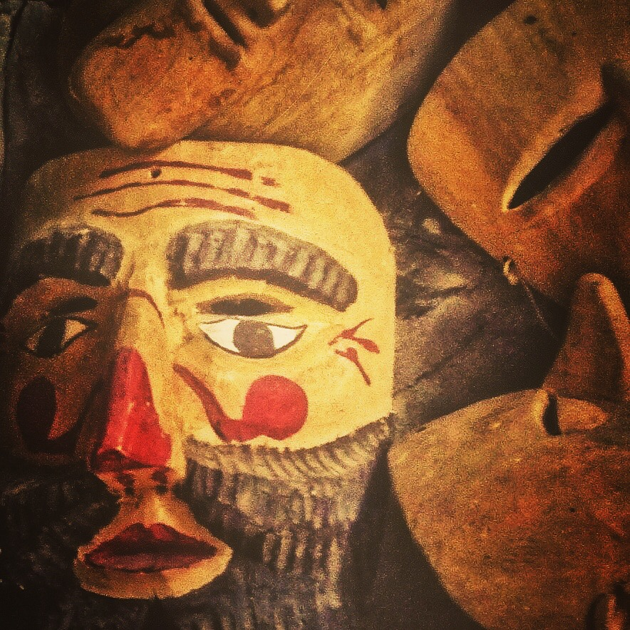 Wood masks for sale at Yohualichan archeological site, Puebla